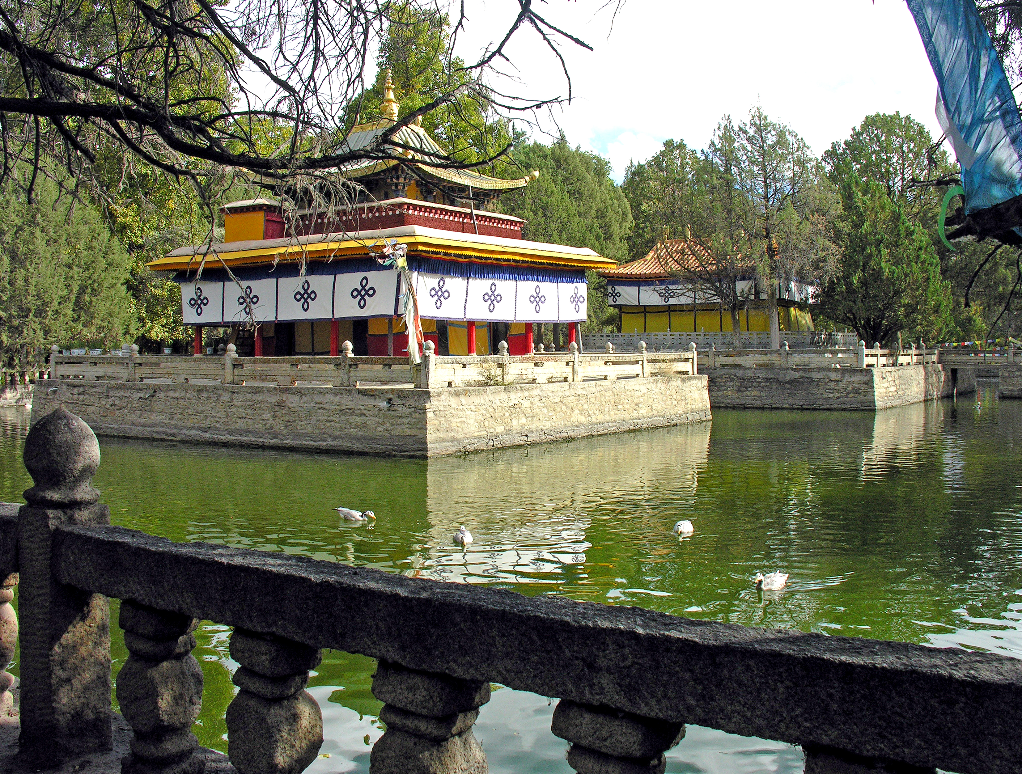 Norbu Lingka means "treasure garden" in Tibetan. It used to be covered by marshland. Summer Palace, Lhasa, Tibet